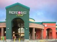 an old pic i took